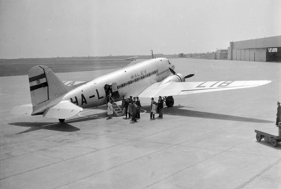 Lisunov Li–2P at Budapest Ferihegy Airport (today: Budapest Ferenc Liszt International Airport) in 1956